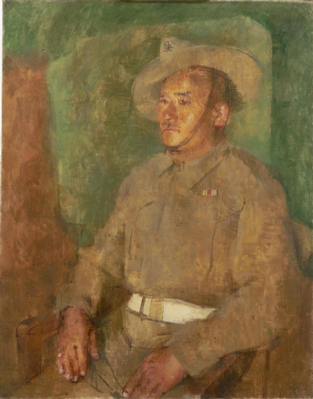 Kulbir Thapa, had won the Victoria Cross in 1915 "for most conspicuous bravery during operations against the German trenches South of Manquisart.” In this quiet, dream-like portrait, he is far removed from the desperation of war. image: a three-quarter length, seated portrait of a Gurkha rifleman in uniform.